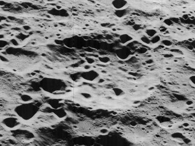 Oblique view of Dunér, on the far side of the moon, facing west.